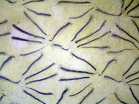 Artist :Gianfredo Camesi work of 1982 (détail).